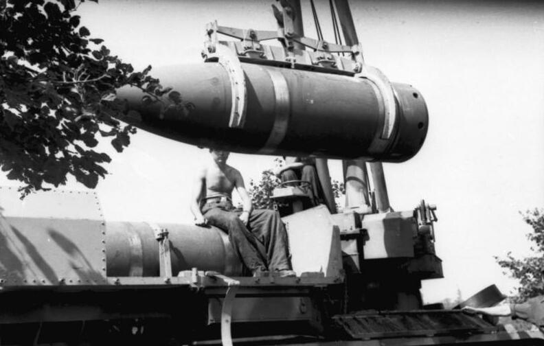 Warsaw Uprising: Ammunition for "Ziu" German 600mm caliber mortar of type "Karl" used for bombing of Warsaw Old Town from Sowiński Park in Wola district.